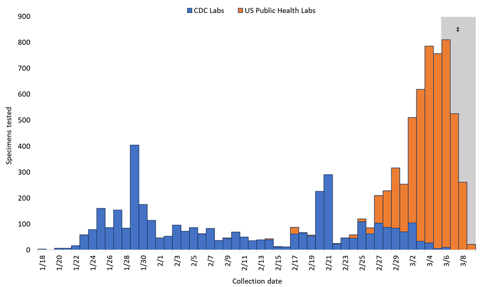 Testing for COVID19 in the USA